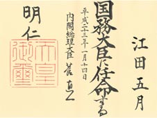 Naoto Kan, Prime Minister, presented the letter of appointment for the Minister to Satsuki Eda on January 14, 2011. Emperor Akihito attested the installation of the Minister.